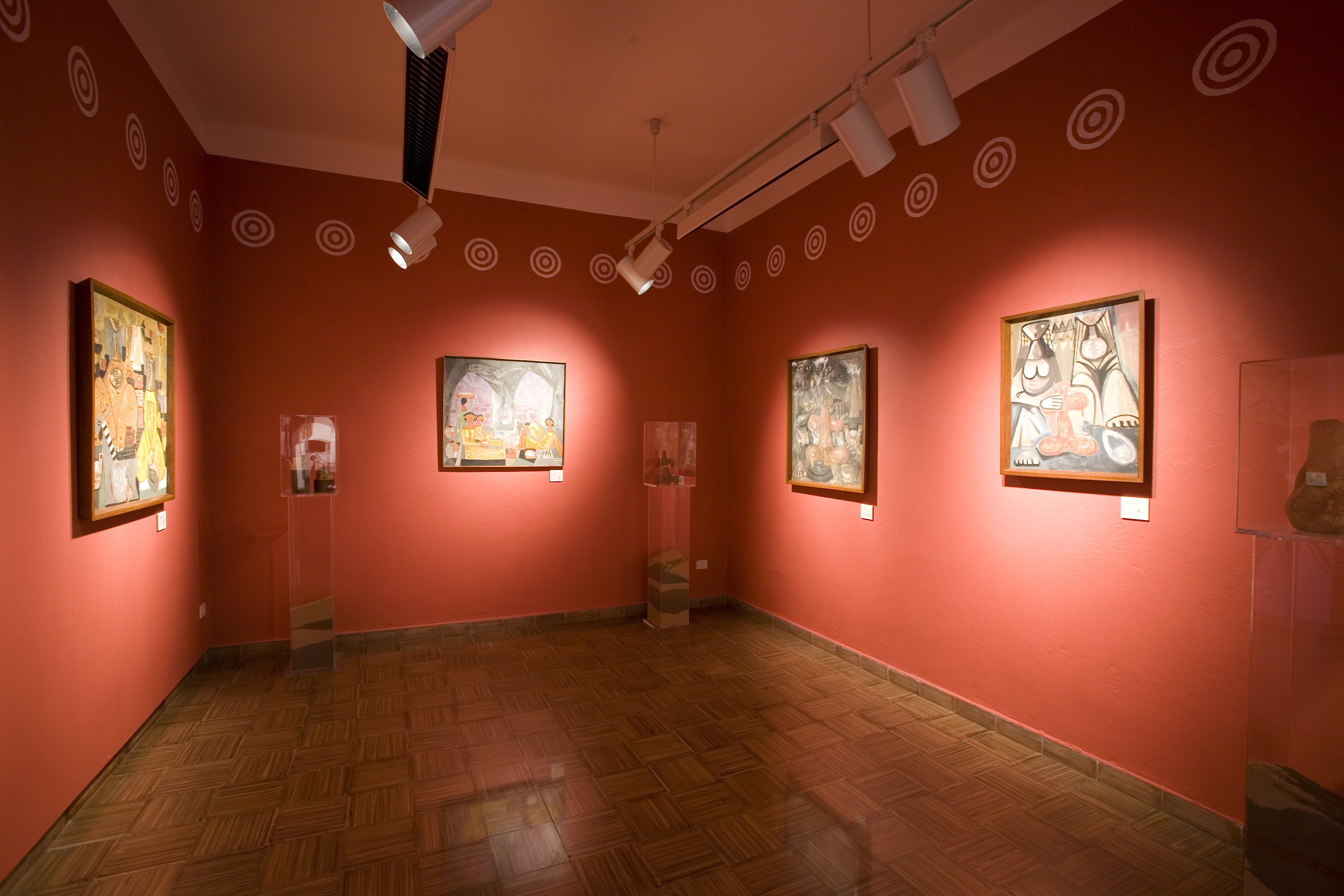 Antonio Padrón